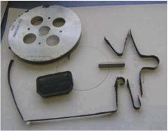 Atlantic Airways Flight 670: Magnetic tape sections from which data could be recovered.